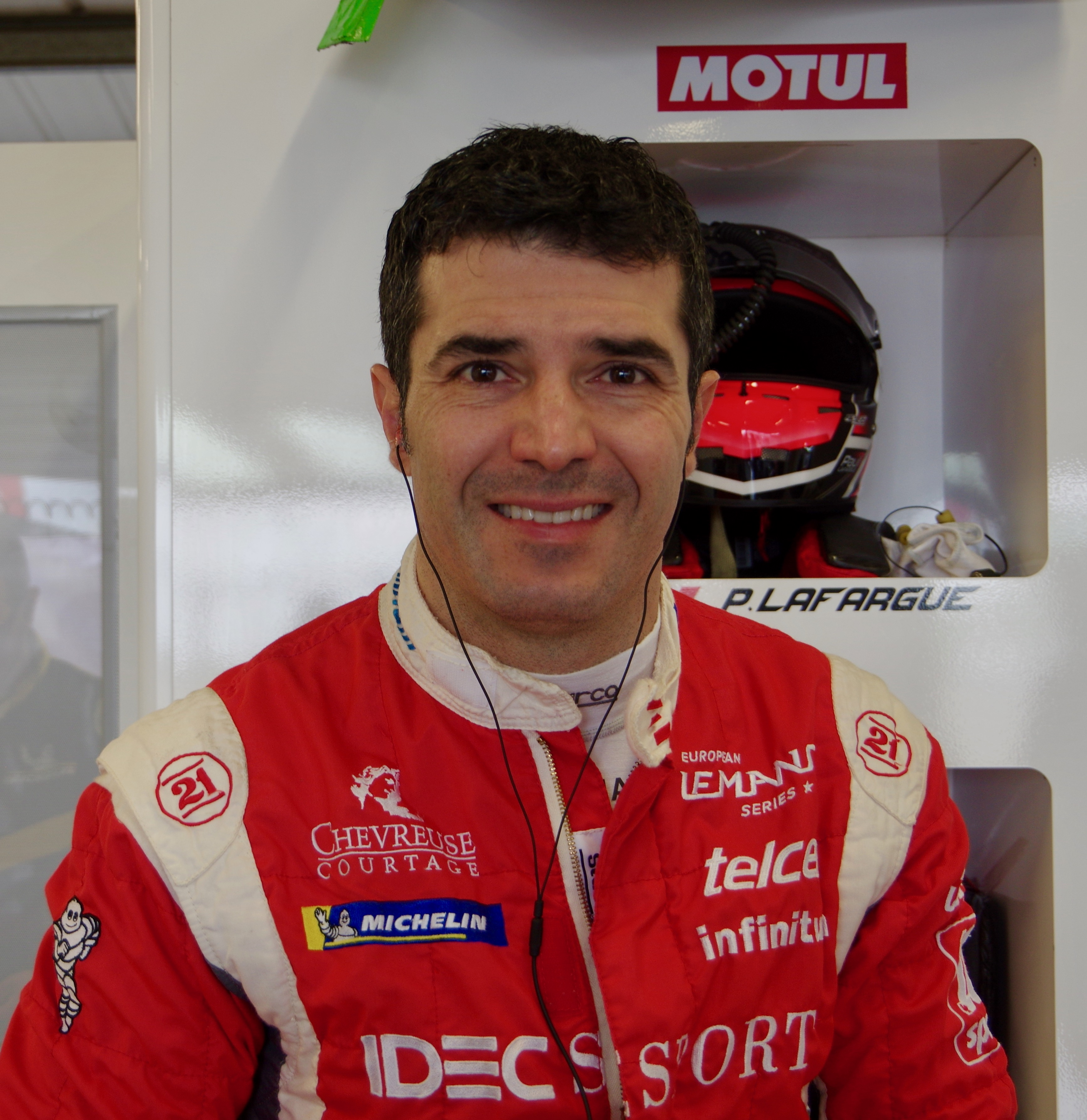 Memo Rojas Driver of IDEC Motors Sport's Oreca 07 Nissan at the 2019 4 Hours of Silverstone Race of the European Le Mans Series.